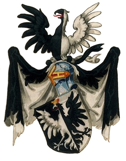 Coat of Arms of Orlovićs